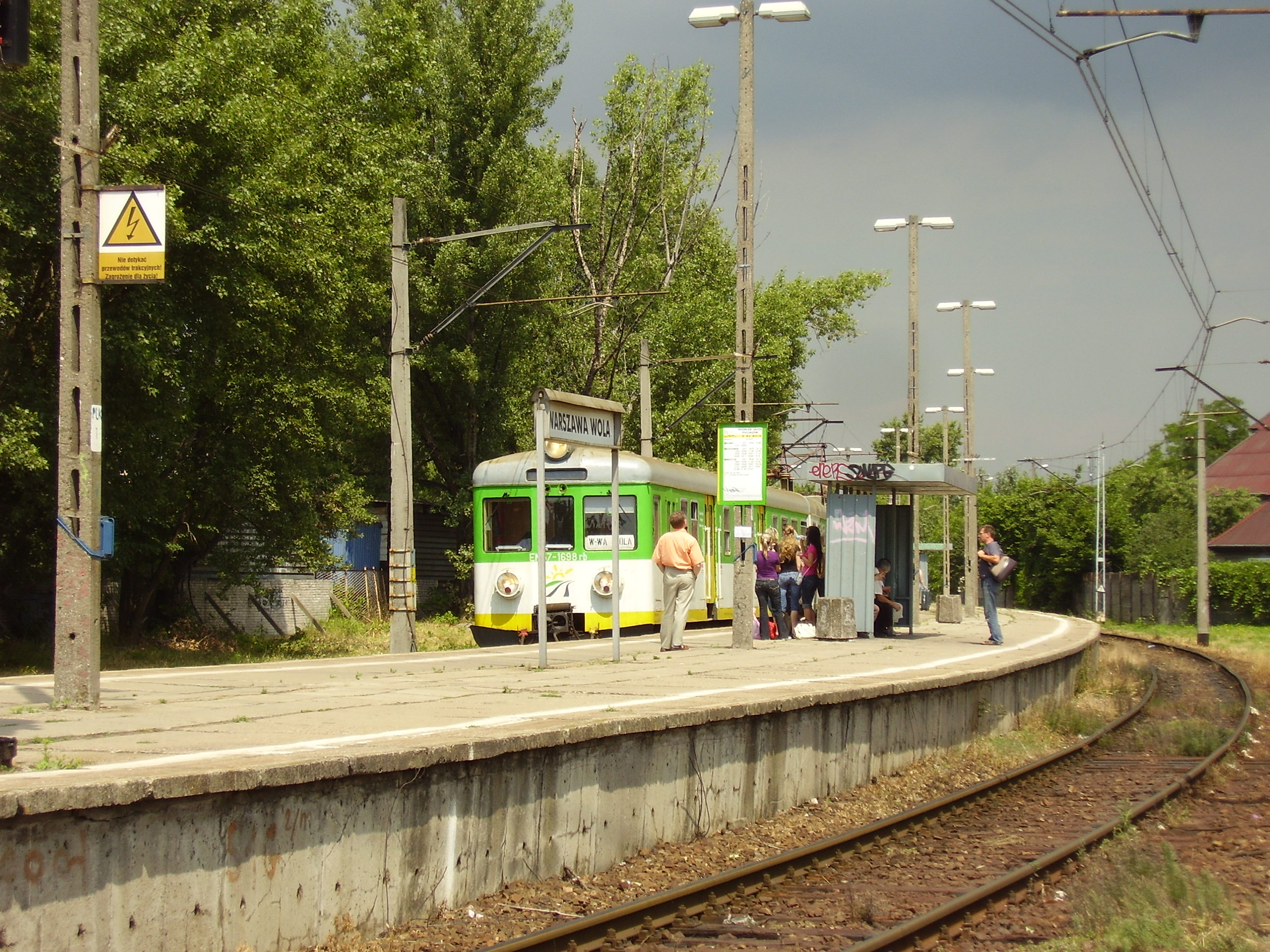 Warszawa Wola train station.